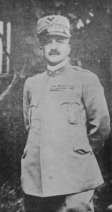 Italian General Armando Diaz. WWI Photograph.